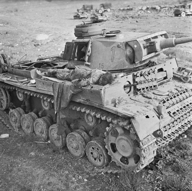 The British Army in Tunisia 1943 A knocked-out German PzKpfw III tank, with the body of one of its crew lying on the hull, 24 February 1943.